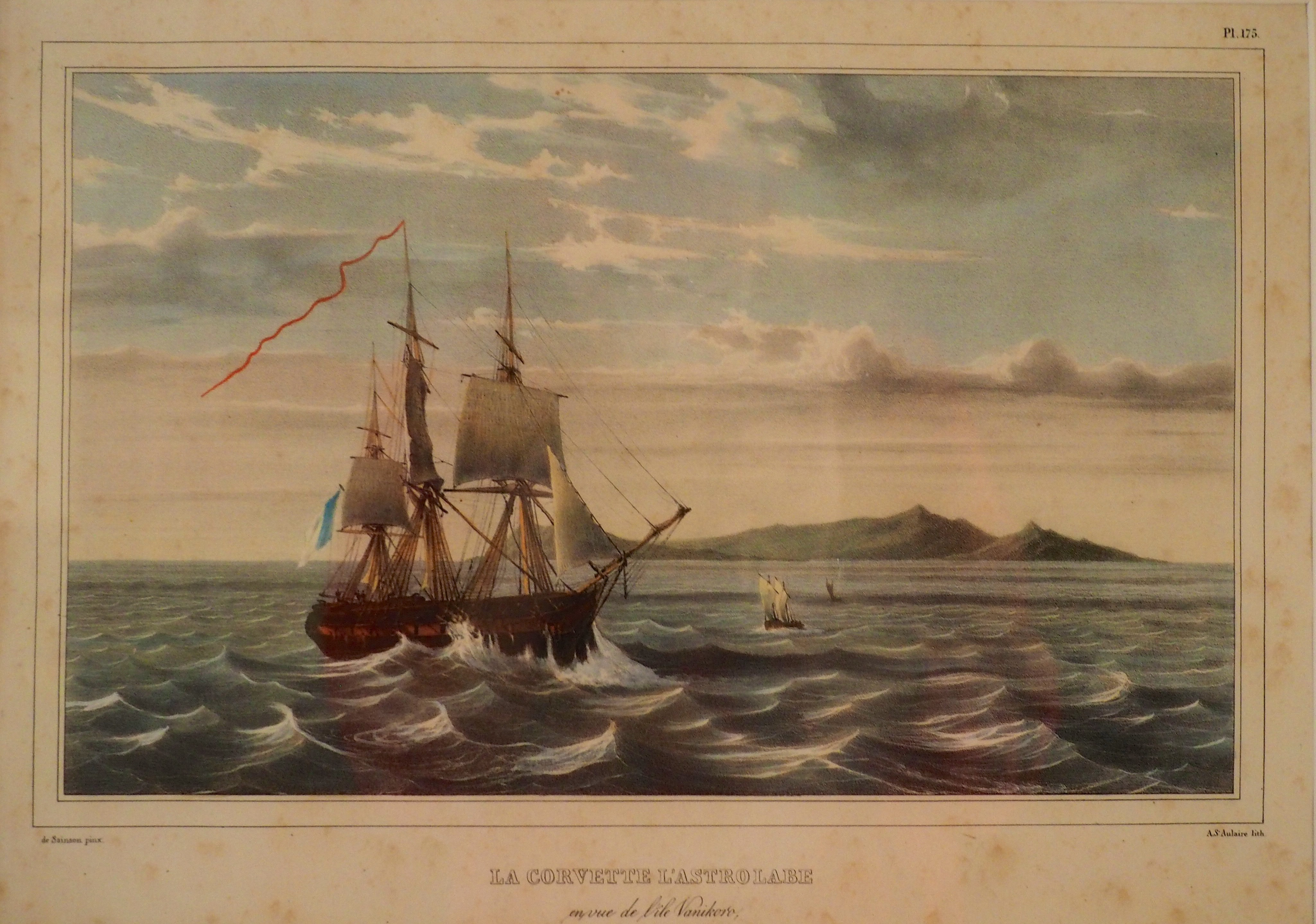 Plate from 1833 book showing the french frigate L'Astrolabe near the island of Vanikoro.